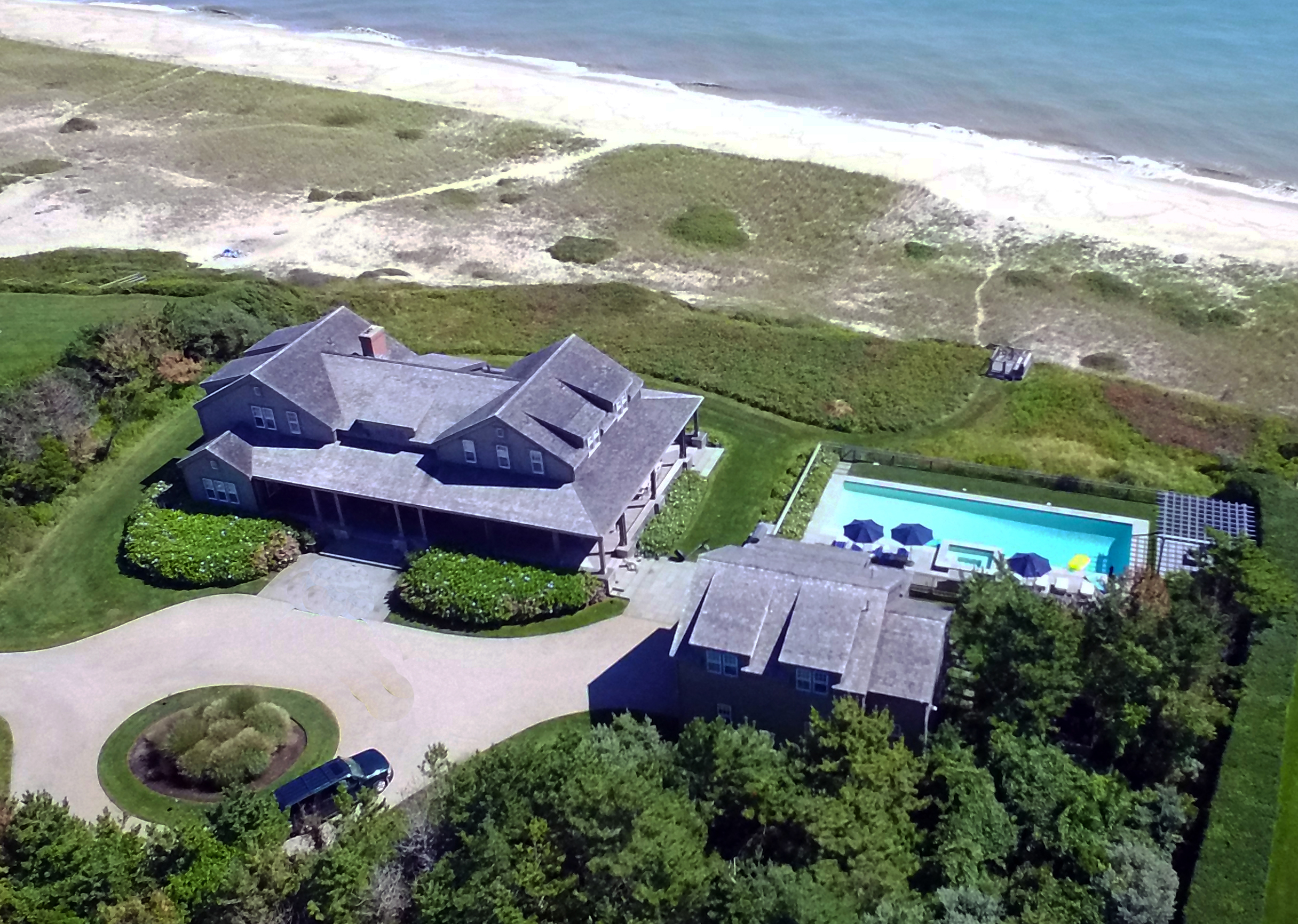 Mark Madoff Nantucket (Tom Nevers) Home by Don Ramey Logan